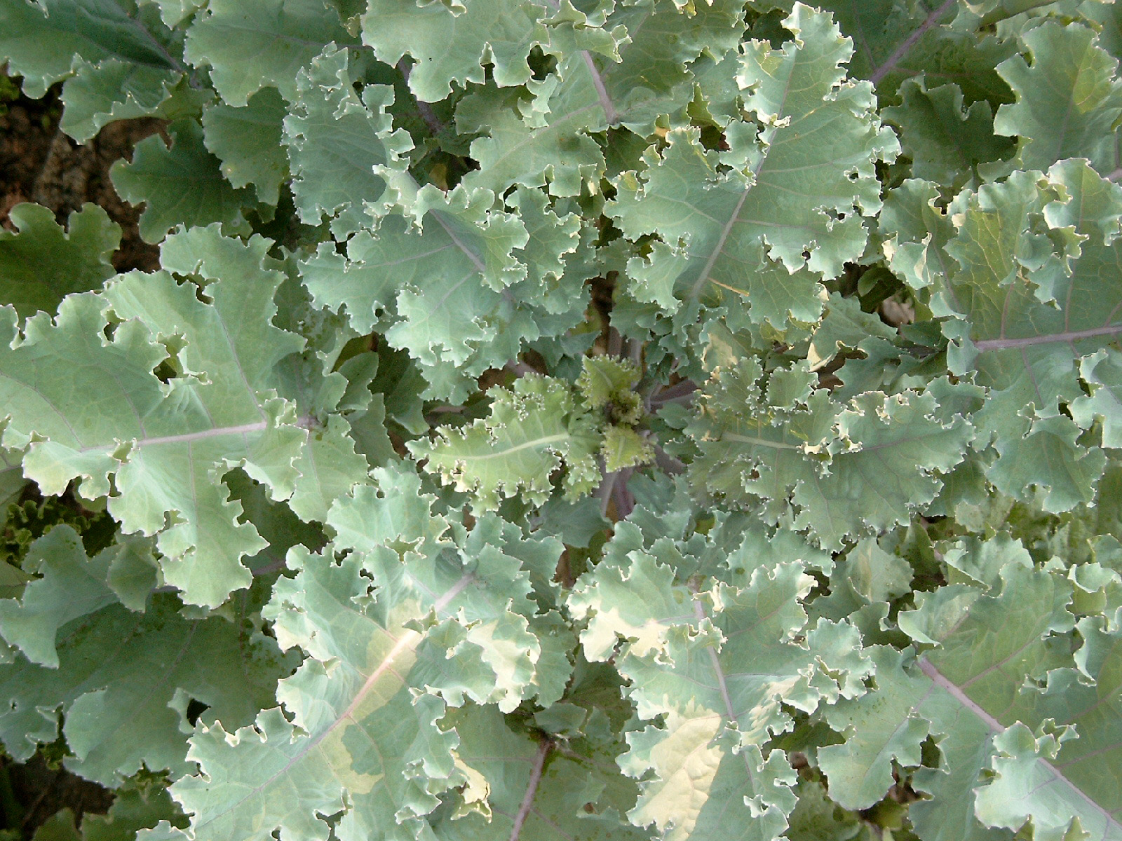 Blue marrow cabbage (Original text: Blauer Markstammkohl)